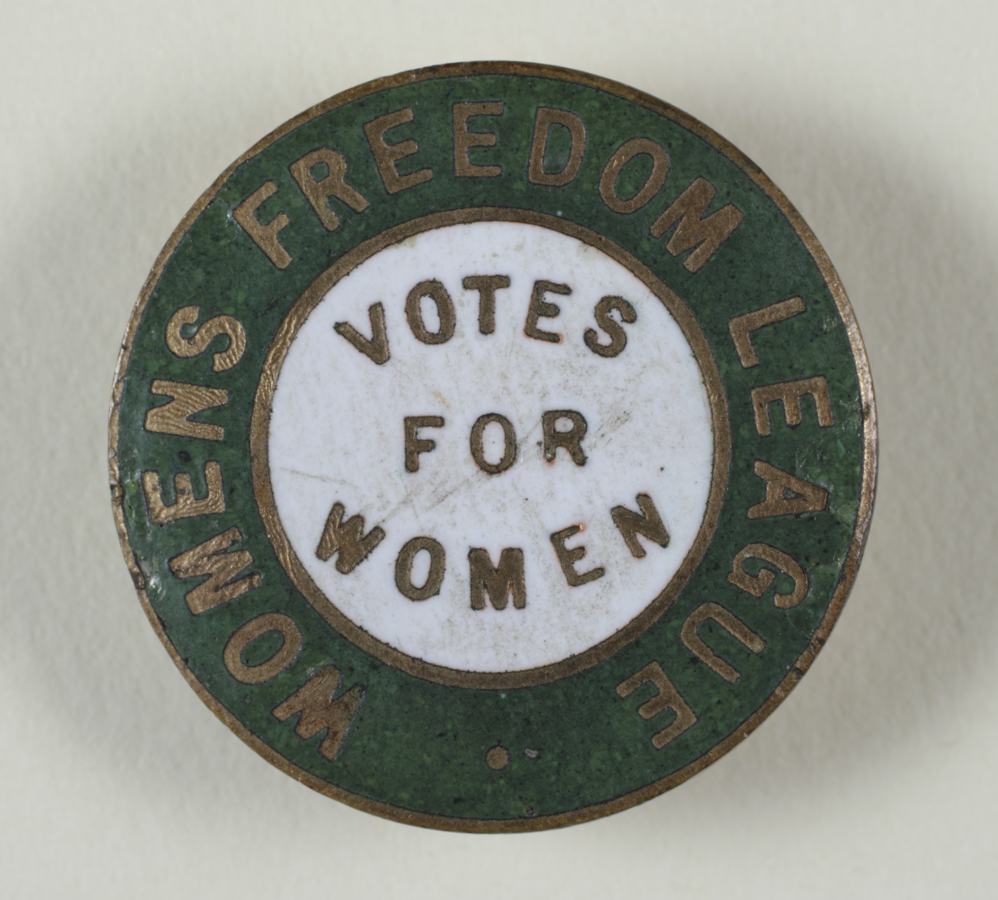 TWL.2004.604Badge, metal, enamel, round, produced by the produced by Women's Freedom League, white centre, green border, gold inscription: 'Women's Freedom League Votes for Women'. Reverse is engraved 'Toye & Co, Manufacturers, St Theobalds Rd'